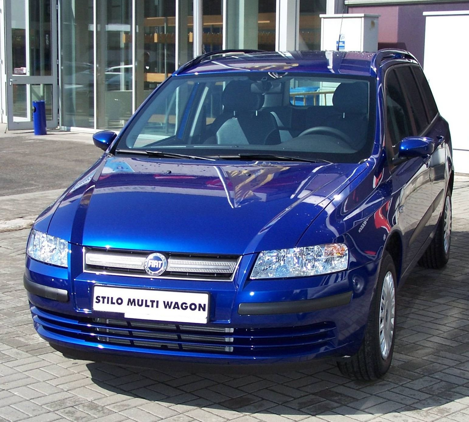 Fiat Stilo Multiwagon Model Year 2006